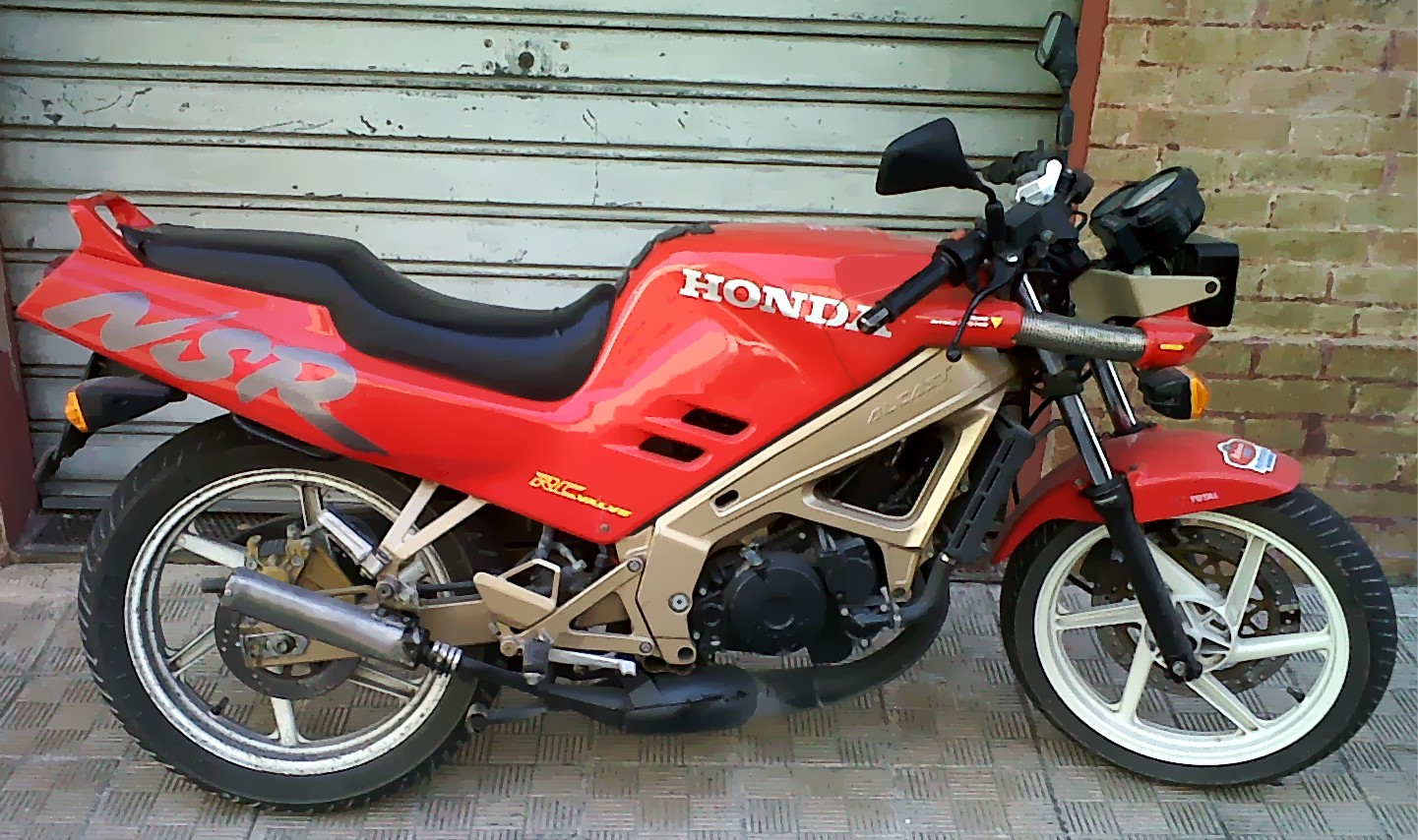 Honda NSR 125 IFI, in the second round of the Honda NSR naked version